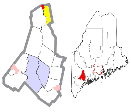 Map of the divisions of Androscoggin County, Maine, United States, with Livermore Falls highlighted: the census-designated place of Livermore Falls in red, and the rest of the town of Livermore Falls in yellow. The cities of Auburn and Lewiston are light blue; other towns are white; and pink areas are census-designated places within other towns.